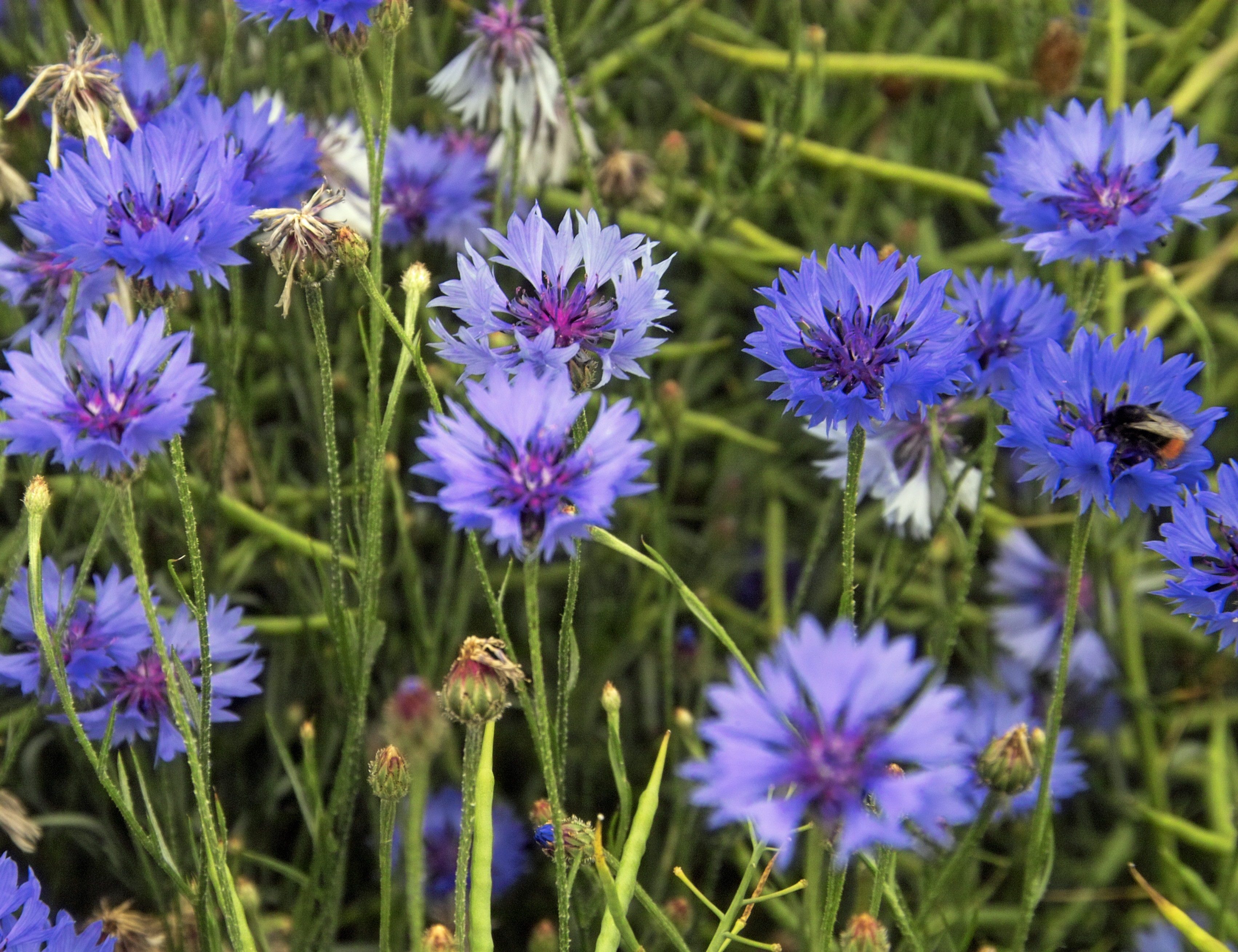 Cornflowers (Centaurea cyanus) growing in a field of Oilseed Rape near New Holland, North Lincolnshire, England.